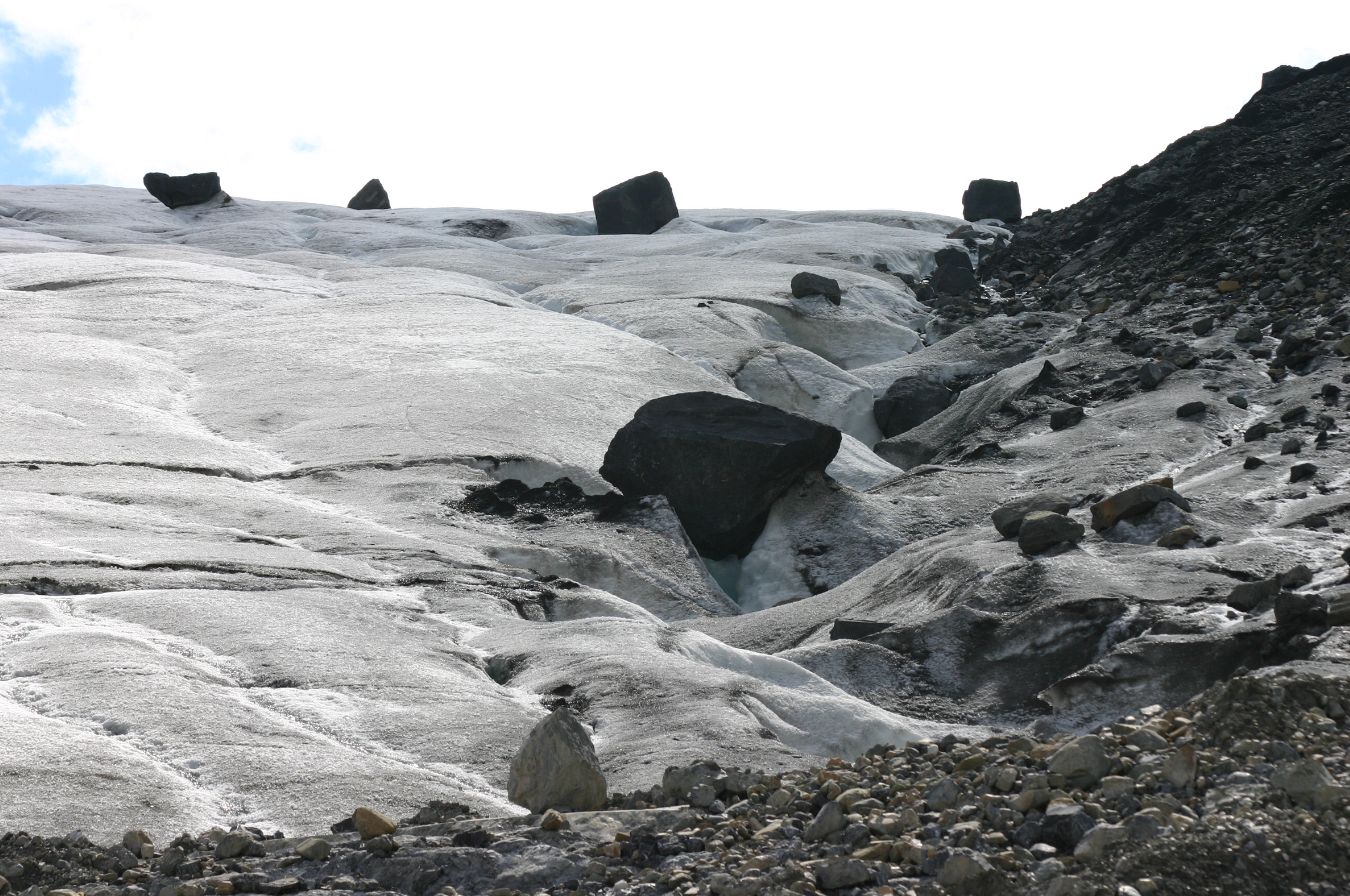 A glacier transports many boulders downstream. As the glacier retreats, these rocks were deposited along the route.